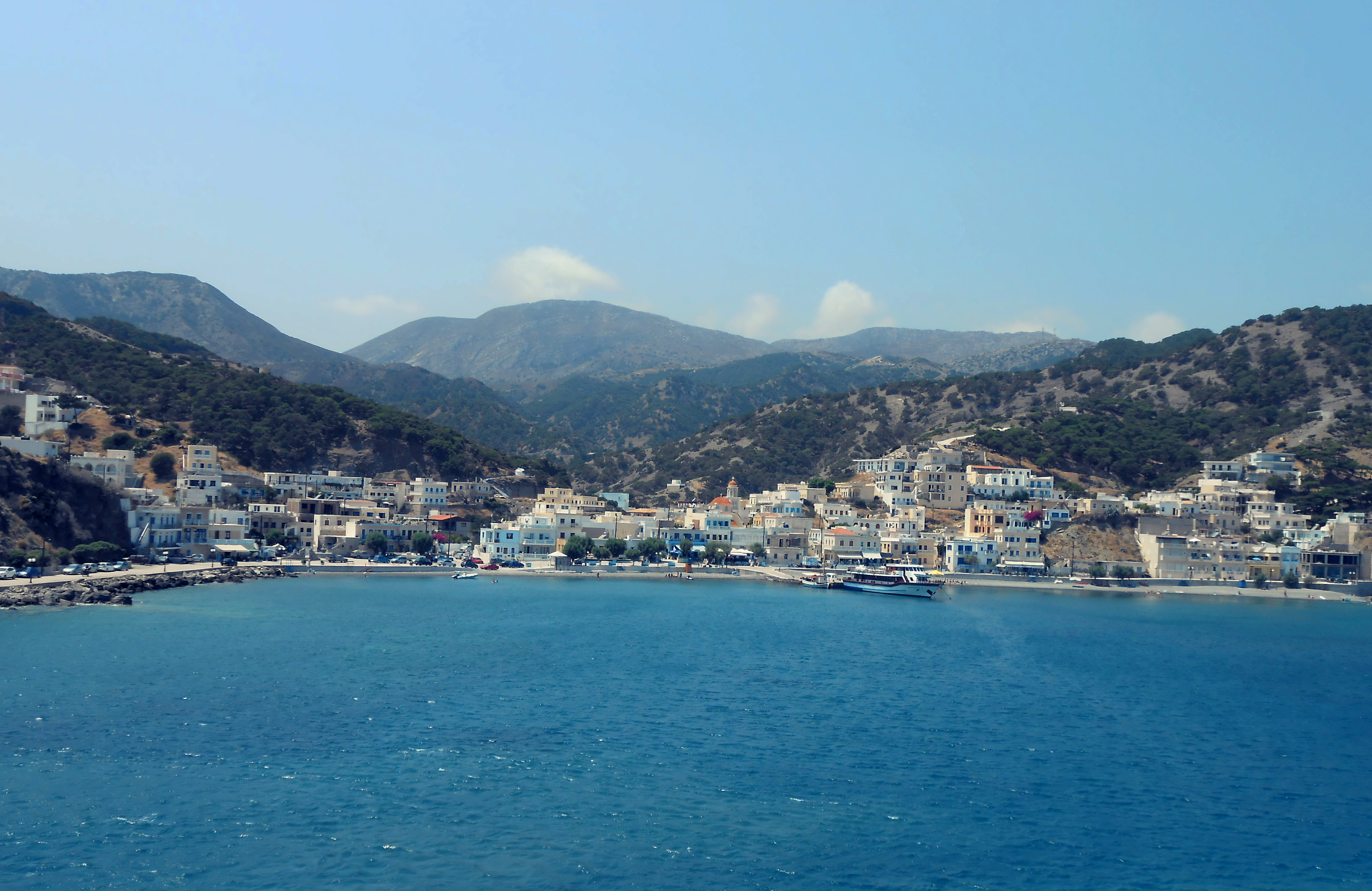 Diaphani village in NE. Karpathos Isl., seaport of Olympos traditional village.